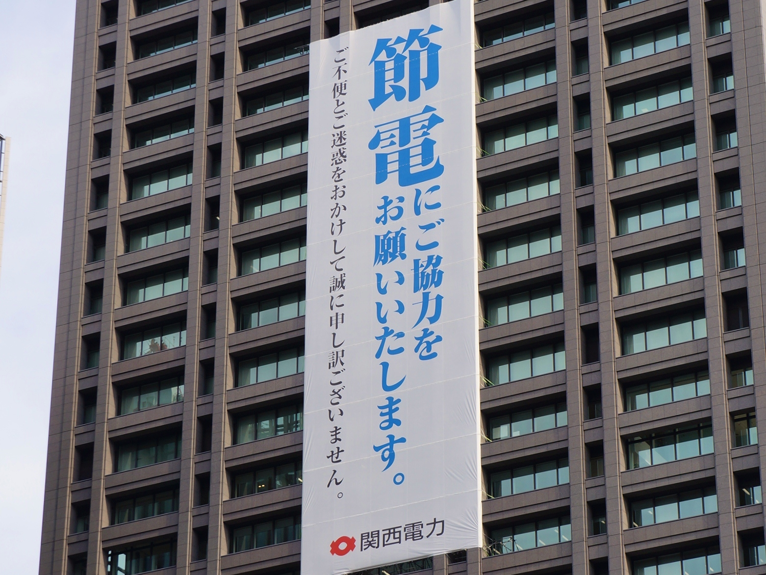 The banner asking to save electricity hanged from the KEPCO Building in Osaka City.